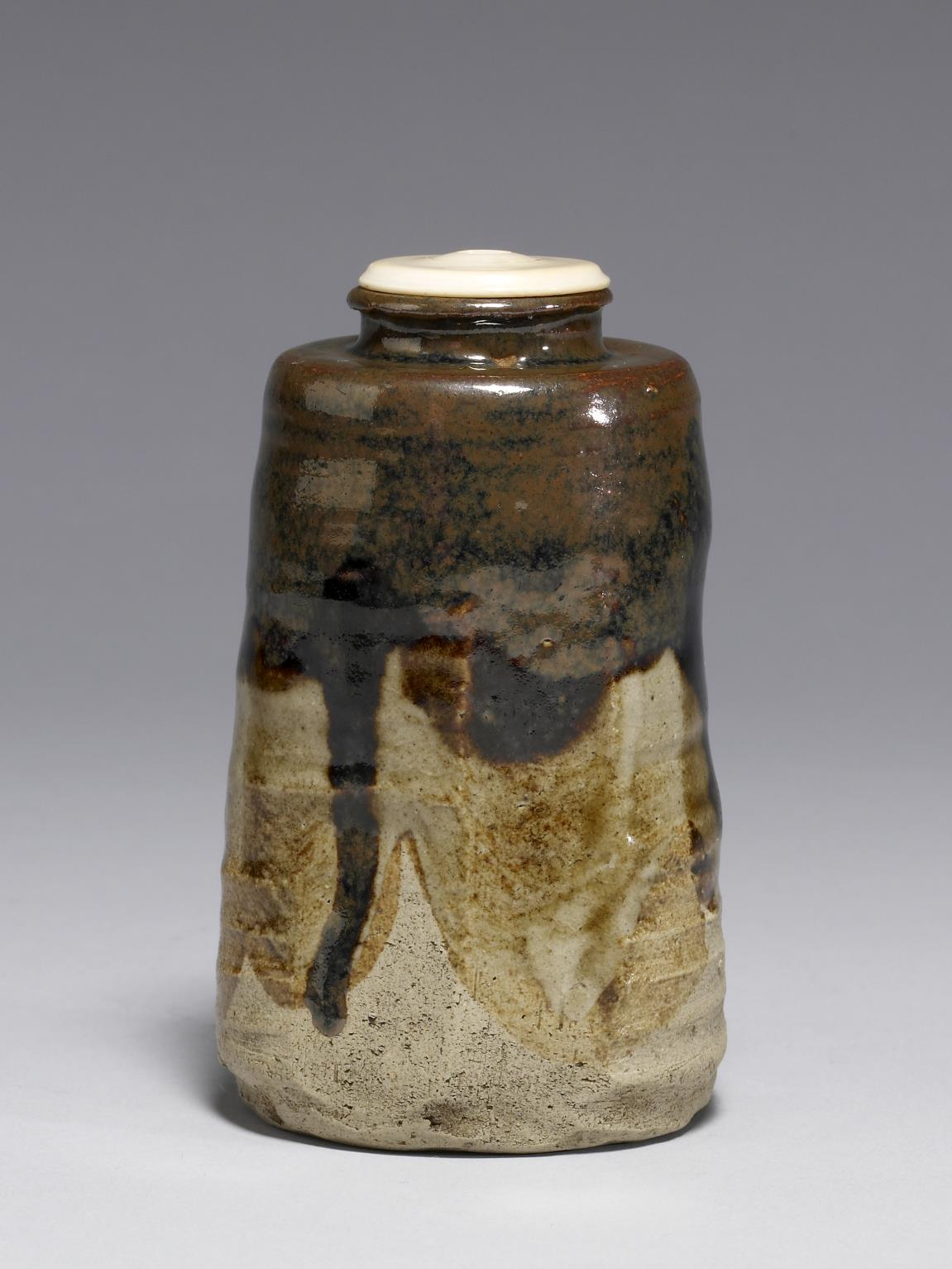 This is an example of Seto ware. The Seto region became a center for the production of utilitarian wares. Potters drew inspiration from Chinese ceramics, including green celadon porcelains and dark brown tenmoku wares. The earliest Seto ceramics may have evolved from failed attempts to reproduce Chinese celadons. Later Seto wares were given a brown iron glaze and fired at high temperatures to create glossy surfaces.